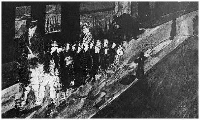 Children from the Białystok Ghetto drawn in 1943 by Pavel Fantel, who was murdered during a death march in 1945